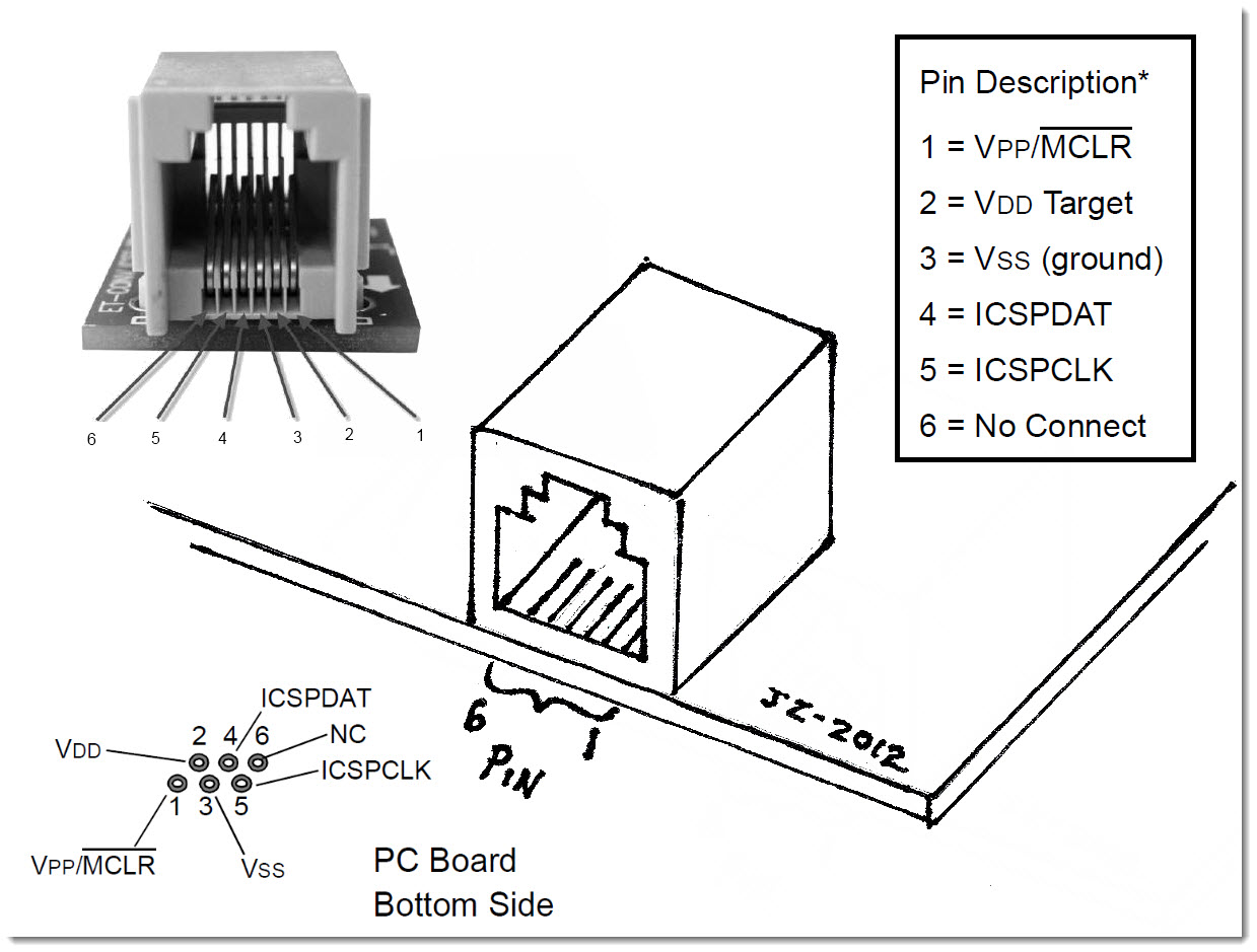 RJ-11 socket pinout for PIC ICSP programming.